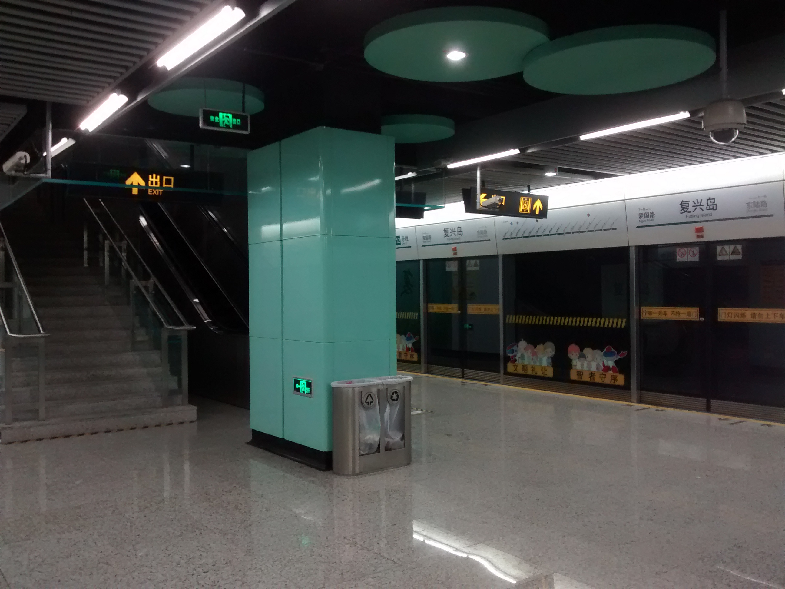 Fuxing Island Station, Shanghai